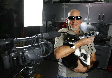 SP_300952_KEEL_YOUTUBE_1 SCOTT KEELER